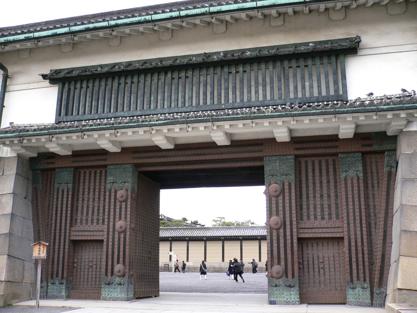 East Main Gate (Higashi Ōte Mon) of Nijo Castle in Kyoto, Kyoto prefecture, Japan.